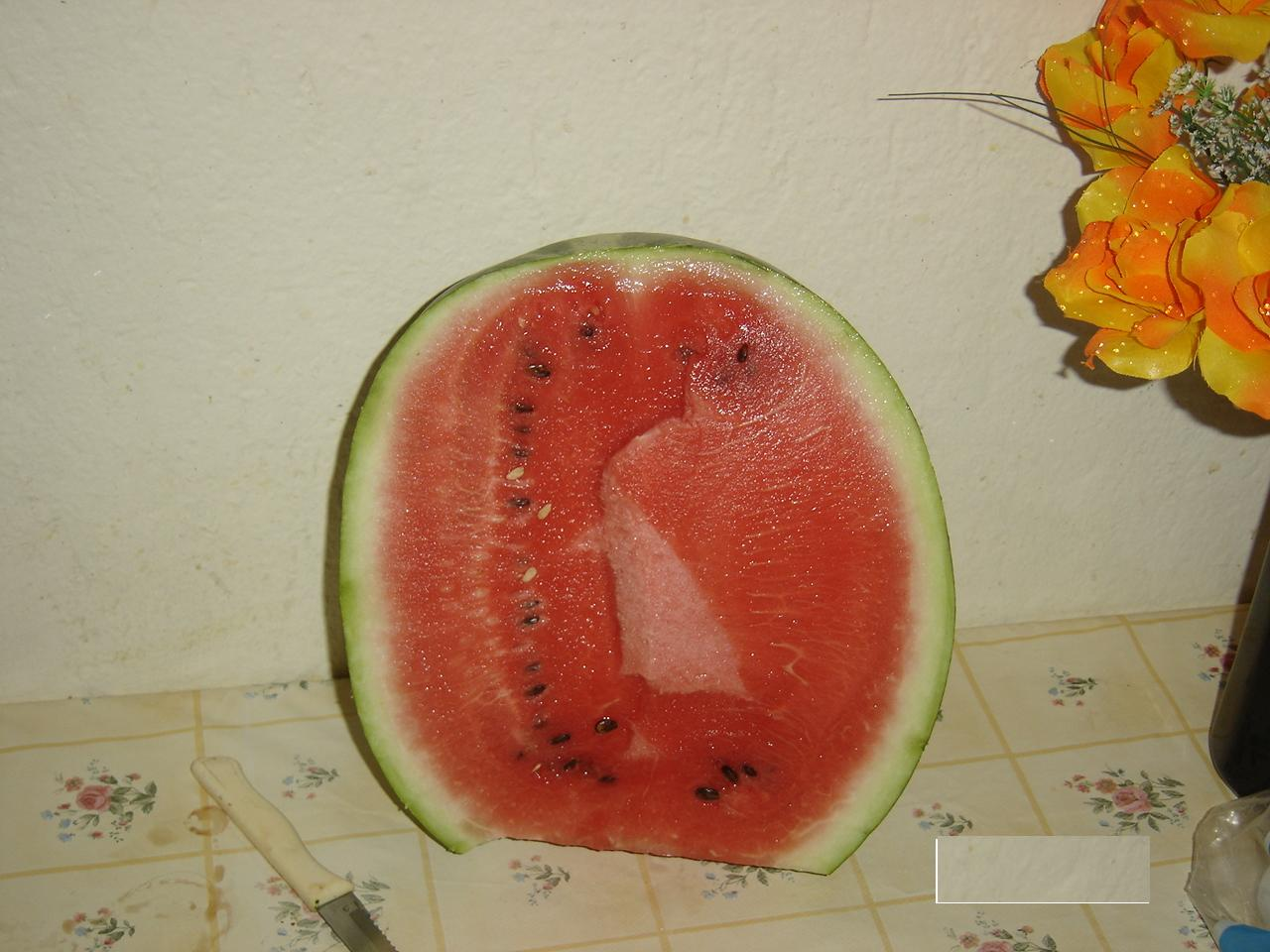 Watermelon